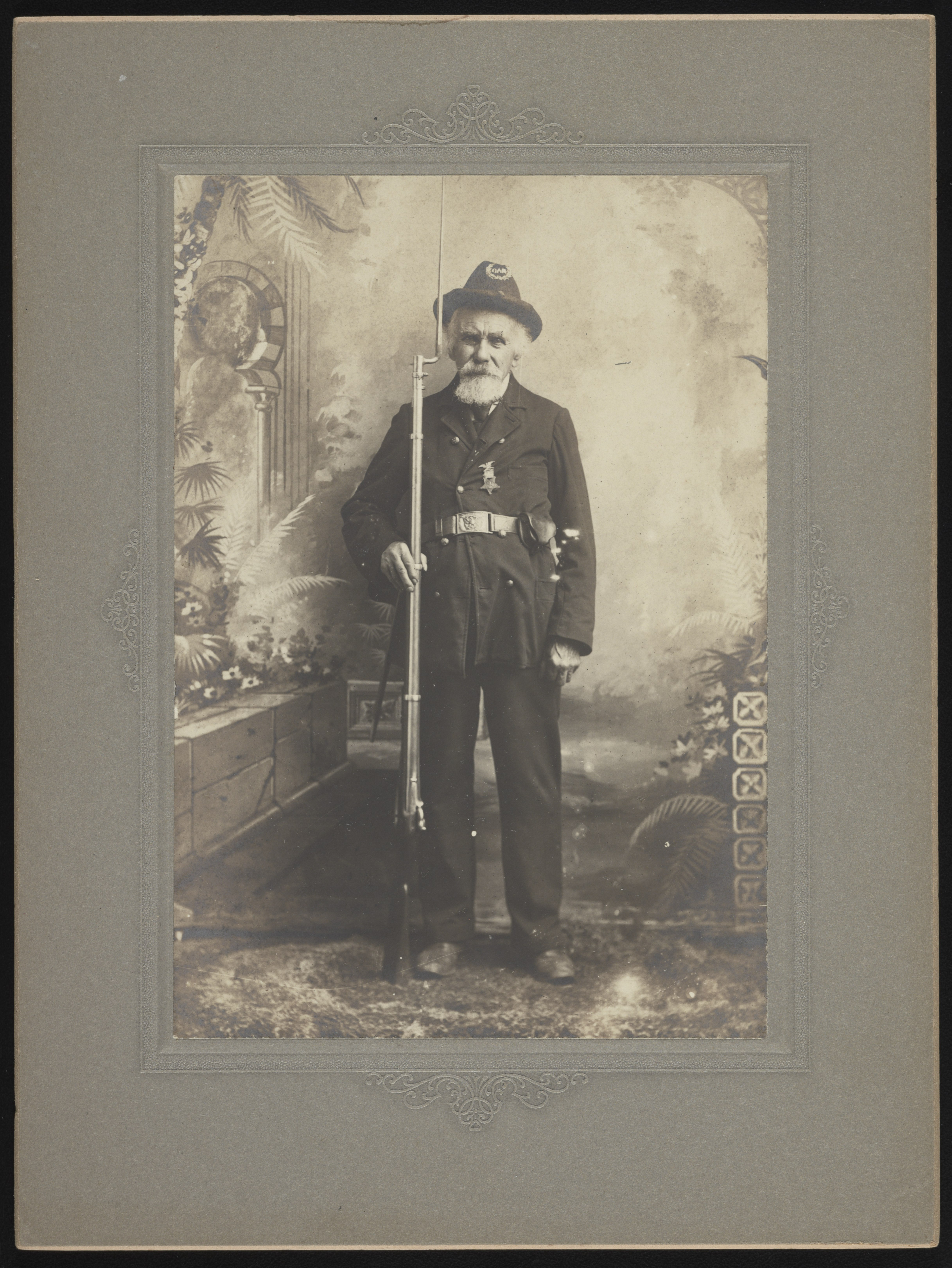 Title: Civil war veteran Andrew Hauenstein] / Geo. H. Todd, photographer, Belfast N.Y Abstract/medium: 1 photograph : albumen print ; sheet 14 x 10 cm, mount 20 x 15 cm.